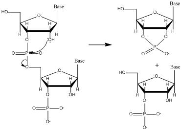 RNA instability due to the 2'-OH.